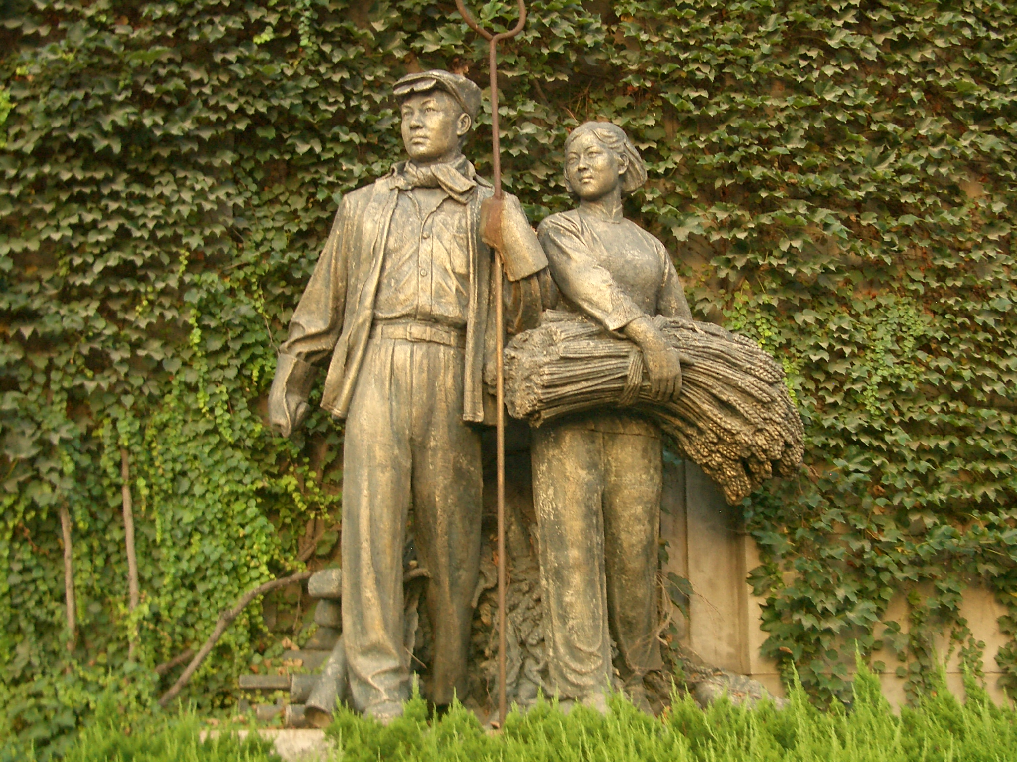 People's Theatre in Xi'an's main street, Dongda Lu, just a few blocks north of the Bell Tower. A few socialist realism sculltures stand in front of the building